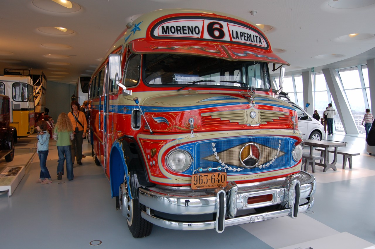 Mercedes-Benz LO 1112 bus, bodywork El Cóndor (reg. 963-640) in Mercedes-Benz-Museum, Stuttgart-Bad Cannstatt, Germany. Built 1969. Ex. "Colectivo", line 6, Moreno, Buenos Aires, Argentina. Creative Commons (CC) photo by stephenhanafin in